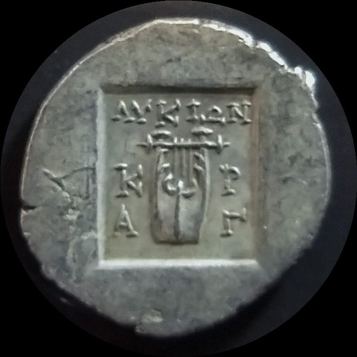 LYCIAN LEAGUE. Cragus. Ca. 32-30 BC. AR hemidrachm. Series 4. Reverse. ΛΥΚΙΩΝ, K-P/Α-Γ, cithara (lyre); all within incuse square. Troxell 102.